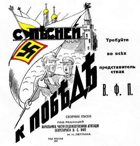 Poster collection of songs RFP "S pesney k pobede!"